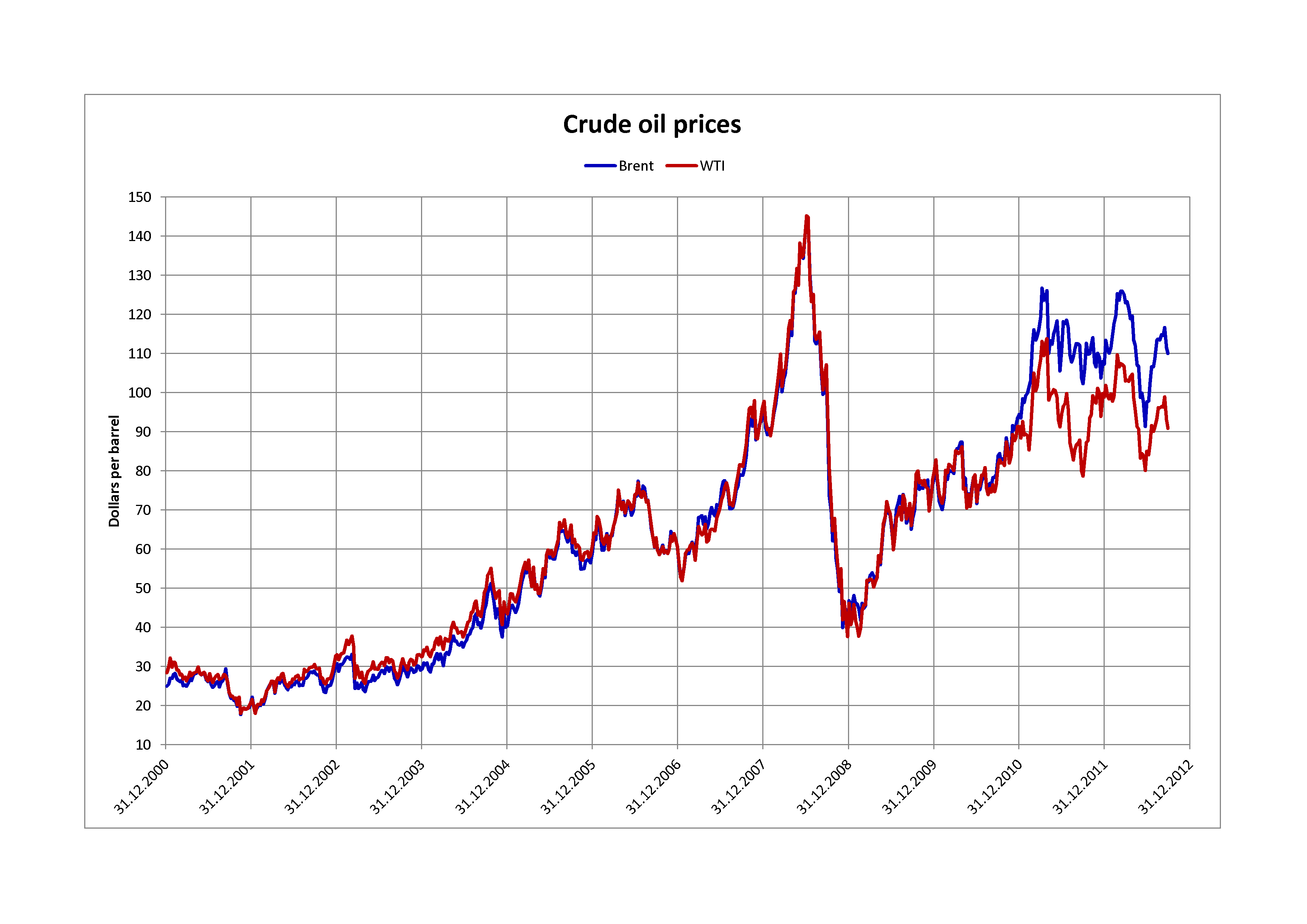 Crude oil prices (Brent and WTI) from 2000 to 2012 (in dollars per barrel)